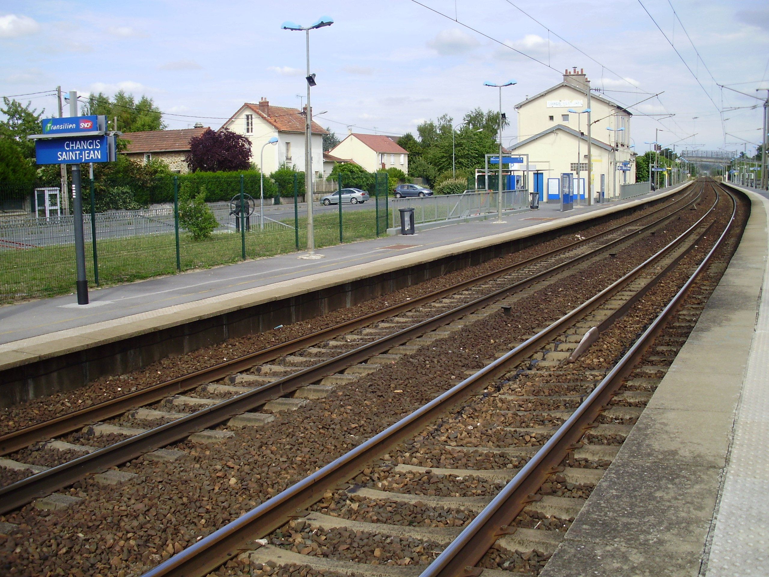 Changis - Saint-Jean station, in Changis-sur-Marne, Seine-et-Marne, France (general wiew from the west extremity of the platform to Paris by looking to Château-Thierry)